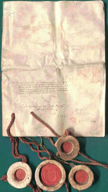 Treaty of Kraków was signed on 8 April 1525 between Kingdom of Poland and the Grand Master of the Teutonic Knights. It officially ended the Polish-Teutonic War.